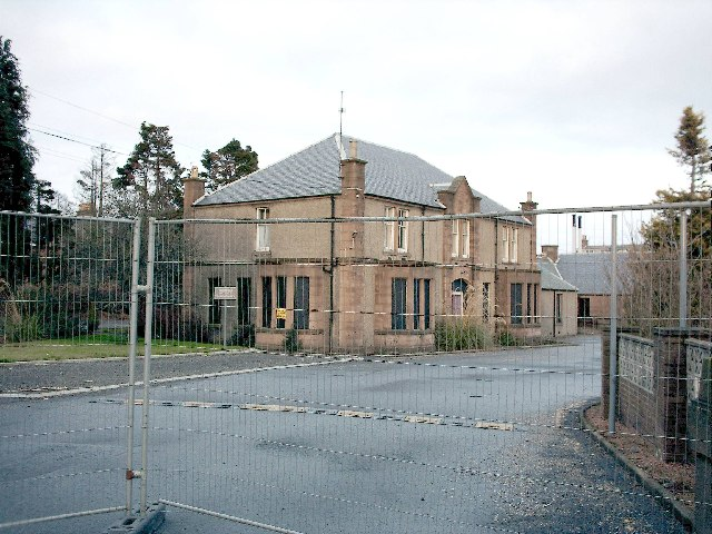 Forfar Infirmary. An outbuilding at the now closed Forfar Infirmary.